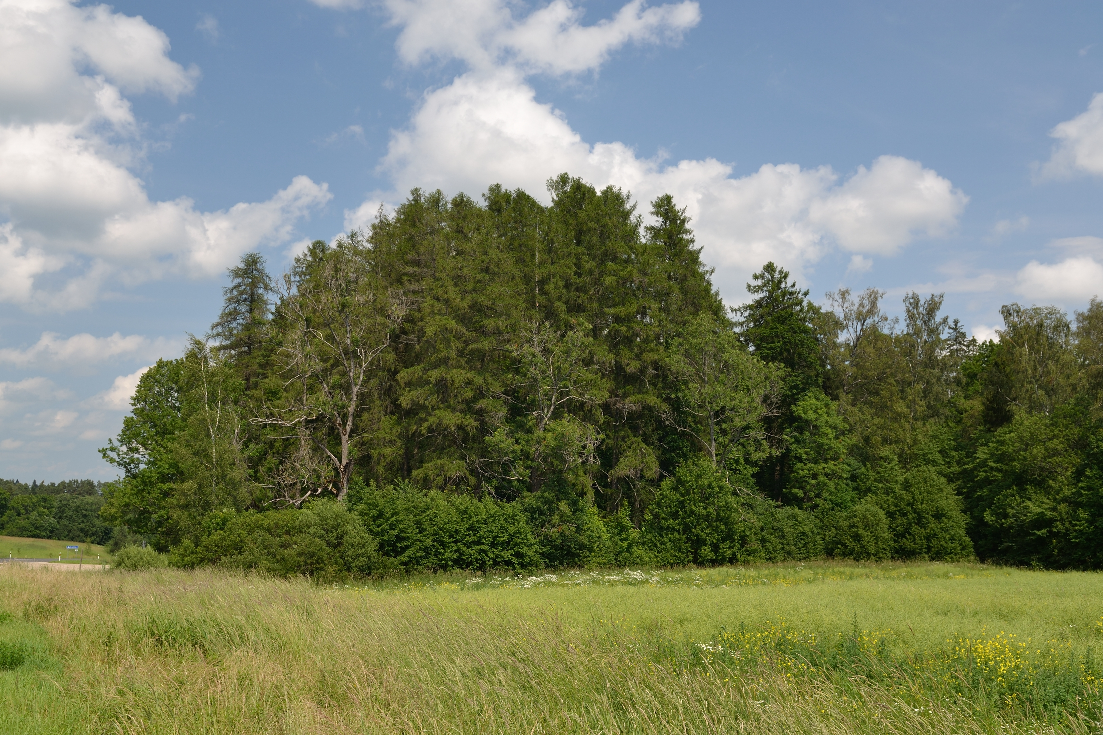 Cultivated Larix decidua trees in Loodi village